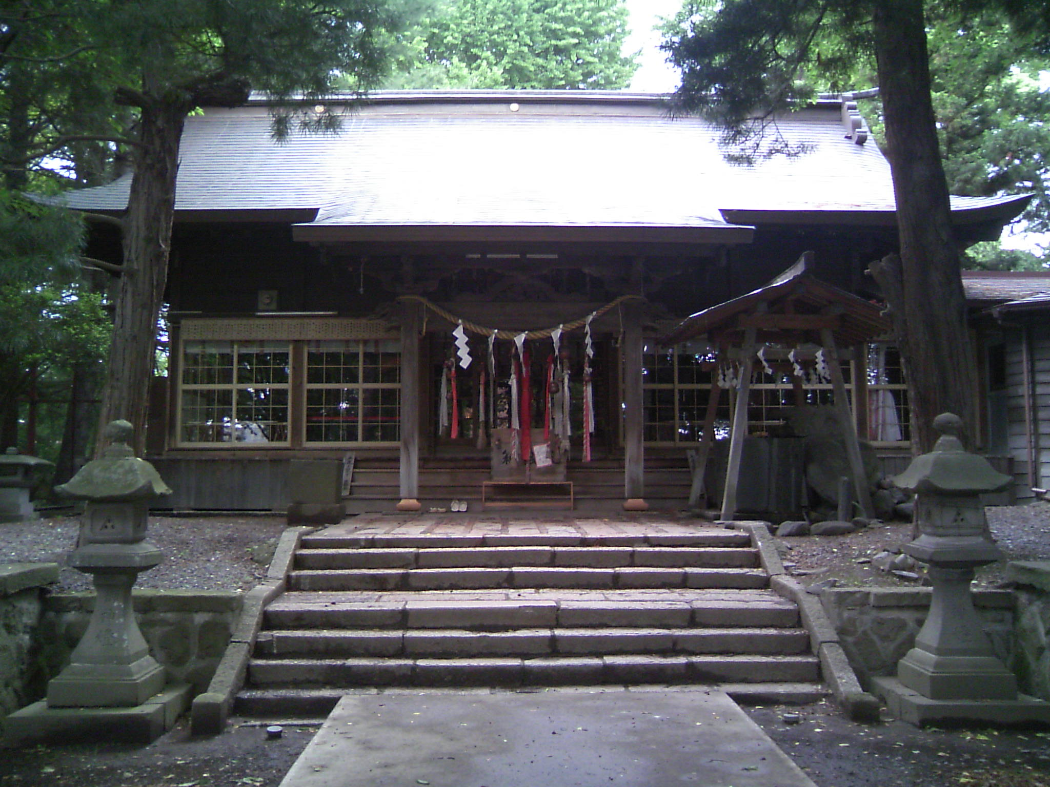 Houreizan Ogami Jinja Honden (Hachinohe, Aomori, JAPAN)